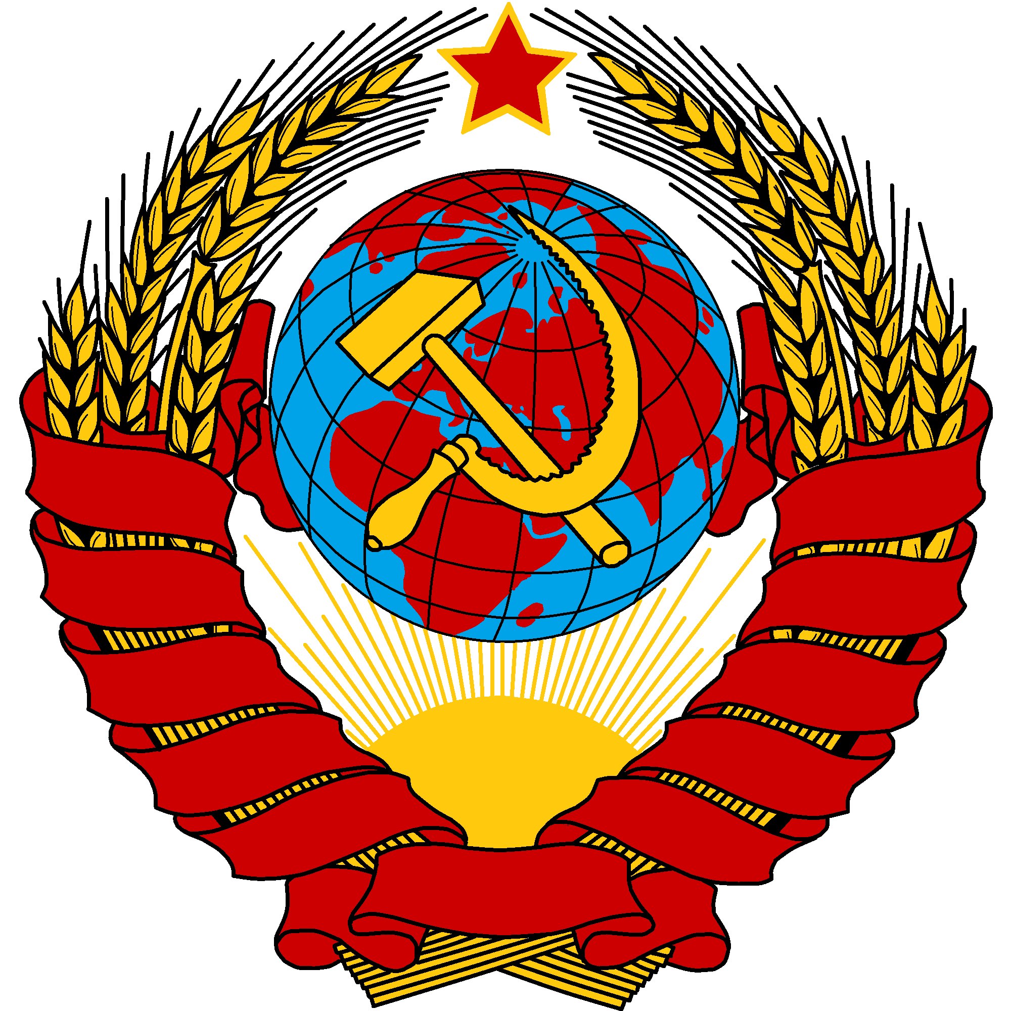 State Emblem of Union of Soviet Socialist Republics from 1936 to 1946 .